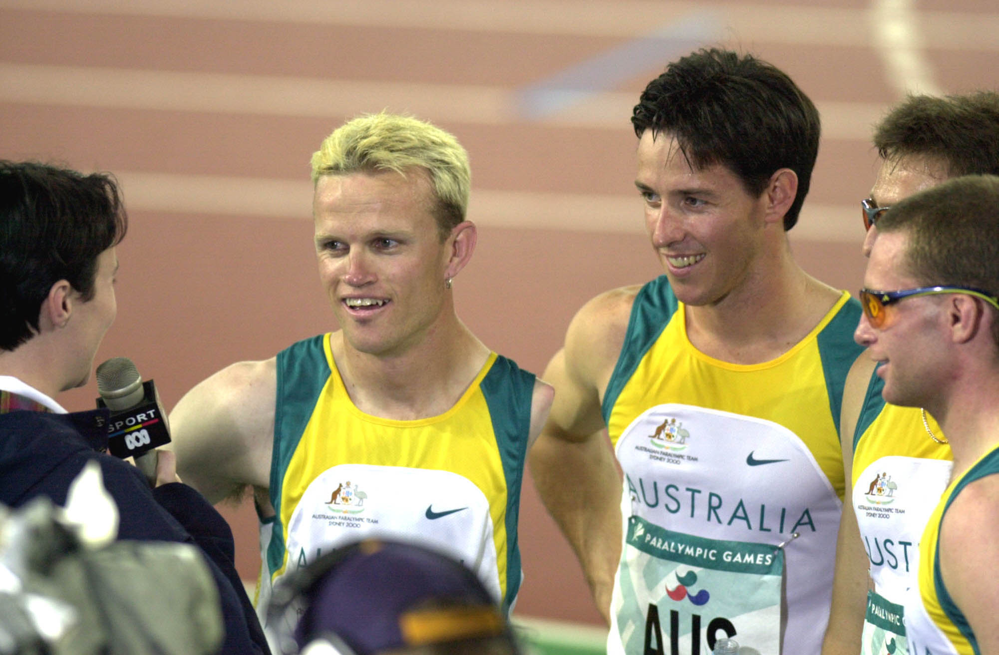 Australian track athletes (L-R) Tim Matthews, Stephen Wilson, Neil Fuller and Heath Francis are interviewed by an Australian Broadcasting Corporation (ABC) reporter about their gold medal win in the 4 x 400 m T46 relay event at the 2000 Sydney Paralympic Games, Day 06